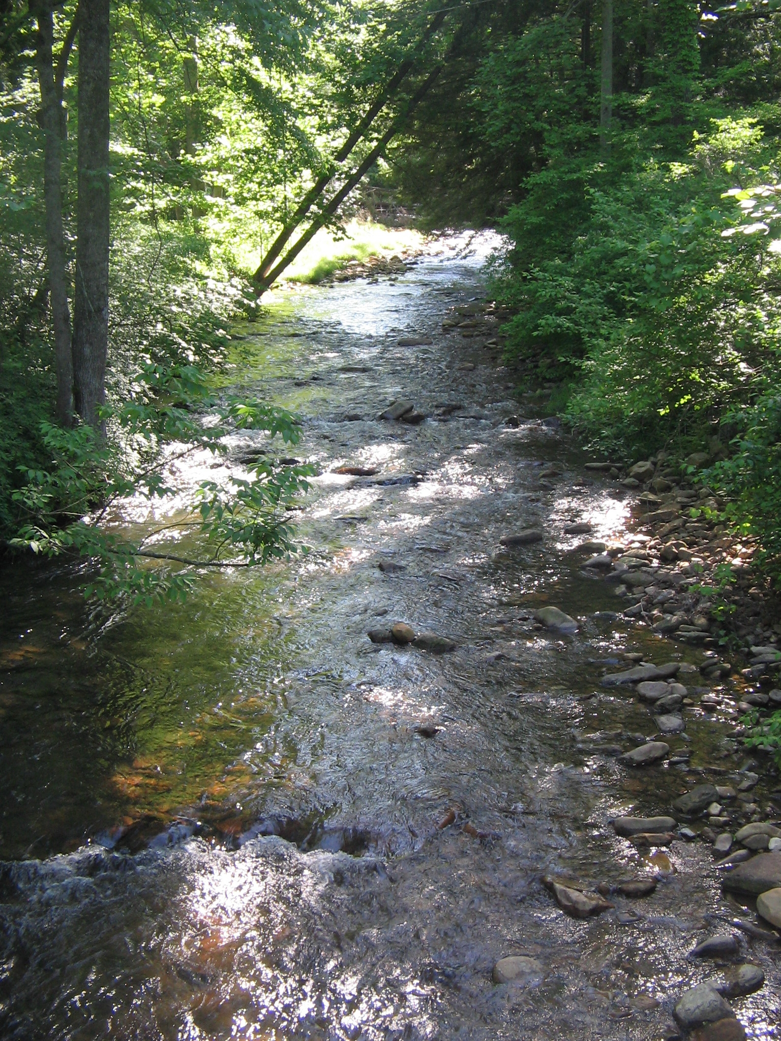 White Deer Hole Creek, near First Gap, Washington Township, Lycoming County, Pennsylvania, USA (Class A Wild Trout Waters)